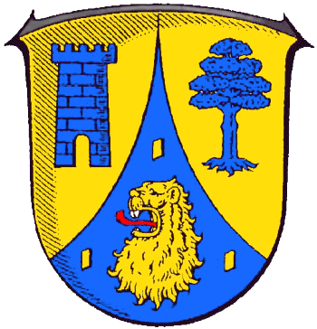 Coat of Arms of Glashütten